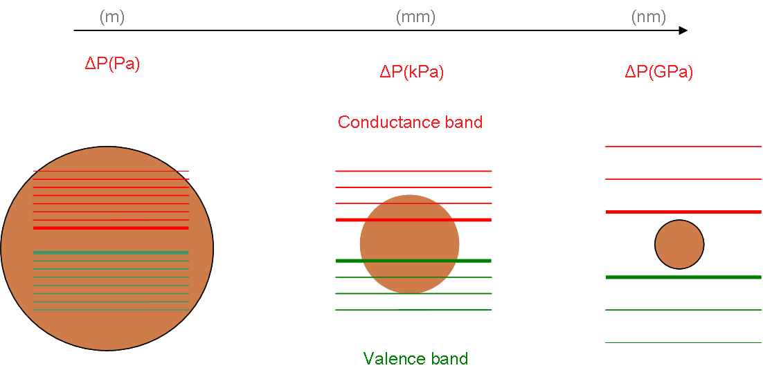 Classical view of quantum confinement